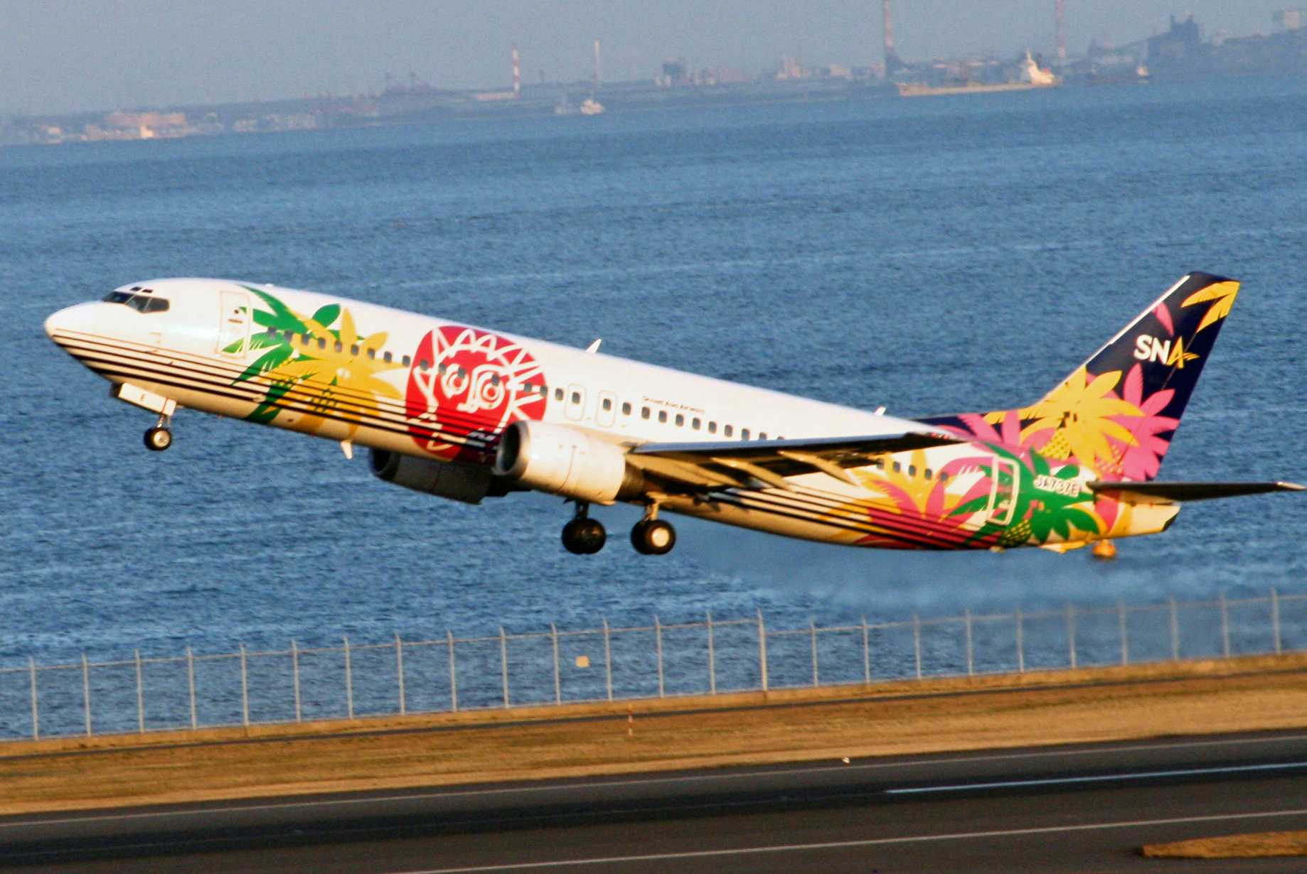 Skynet Asia Airways Boeing 737-400 JA737E at Haneda Airport